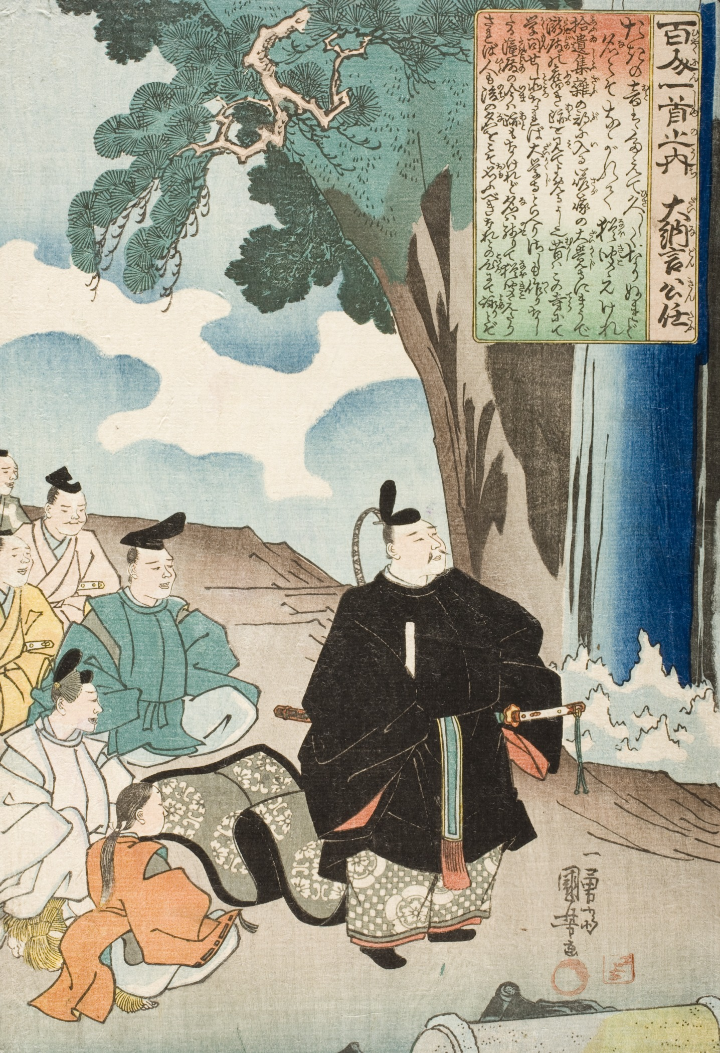 early 1840s Series: Hundred Poets, One Poem Each Prints; woodcuts Color woodblock print Image: 13 5/8 x 9 3/8 in. (35 x 24 cm); Sheet: 14 x 9 3/8 in. (35.56 x 24 cm) The Joan Elizabeth Tanney Bequest (M.2006.136.240) Japanese Art